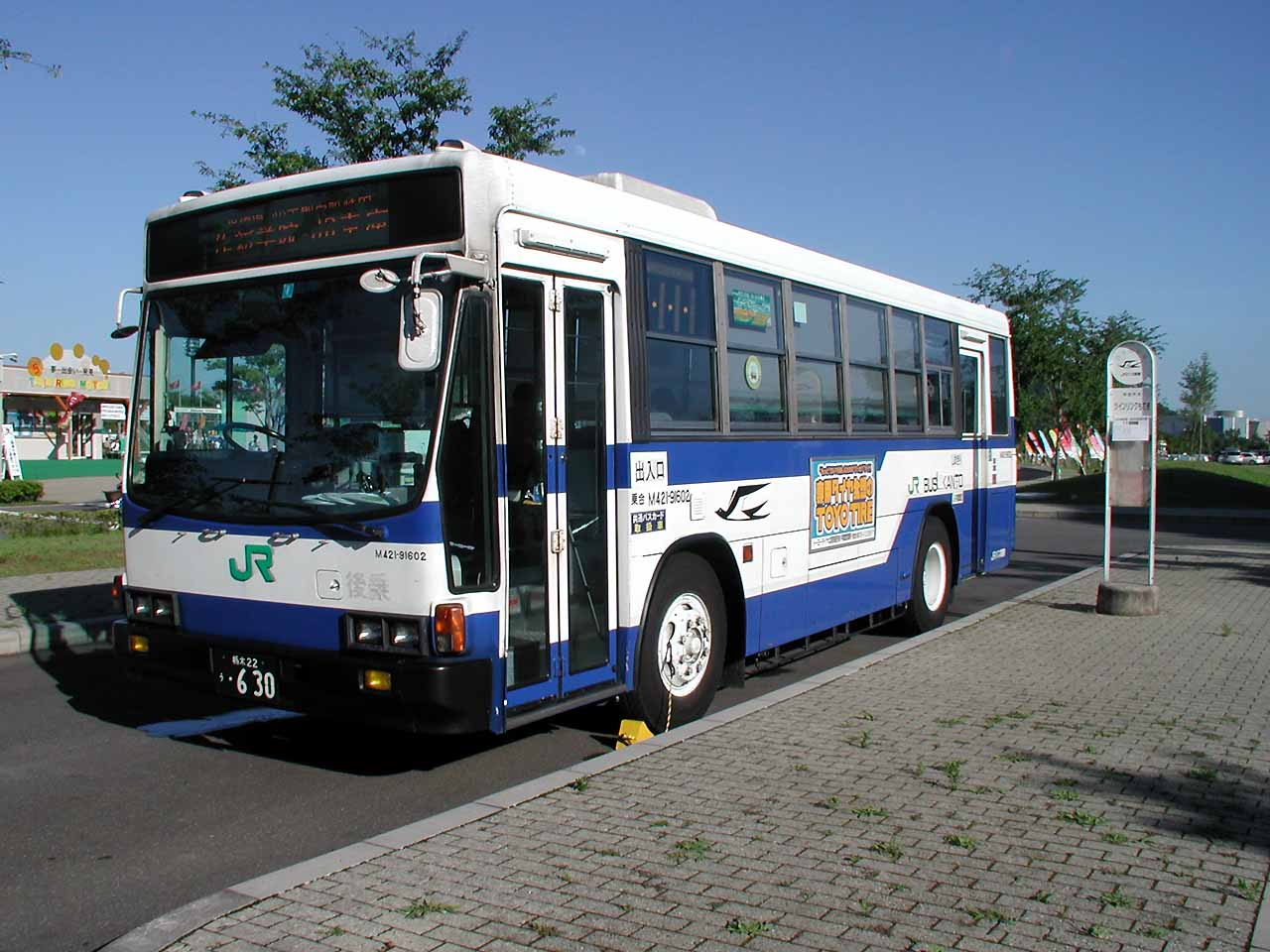 JR Bus Kanto "Suito-Saisen" Line. Model: Isuzu Cubic LT (U-LT232J) Licence plate: TGT22 U-630（栃木22う・630） Place: Twin Ring Motegi, Motegi town, Tochigi Japan